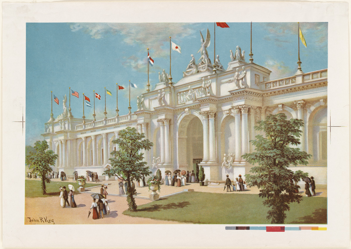 File name: 07_11_001052 Title: Chicago Exposition 1893 Creator/Contributor: Key, John Ross, 1832-1920 (artist); L. Prang & Co. (publisher) Date issued: 1861-1897 (approximate) Copyright date: Physical description note: Genre: Chromolithographs; Genre prints Notes: Title supplied by cataloger. Location: Boston Public Library, Print Department Rights: No known restrictions Flickr data on 2011-08-05: Camera: Sinar AG Sinarback 54 FW, Sinar m License: CC BY 2.0 User: Boston Public Library BPL